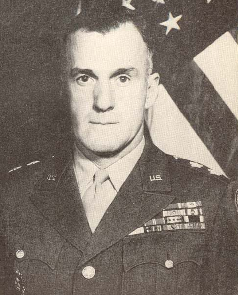 LTG Edward H. Brooks. Official U.S. Army command photo, ineligible for copyright